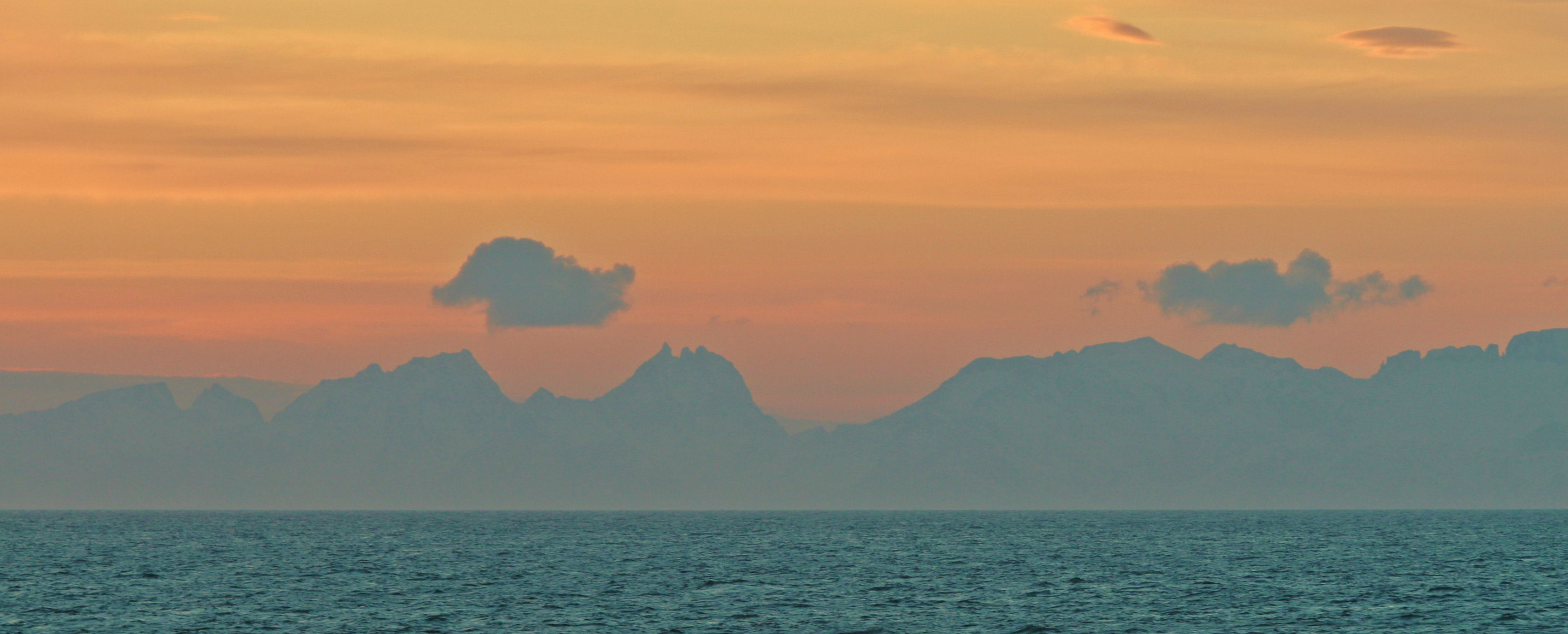 The Lofoten "wall" seen from the Vestfjord, Norway